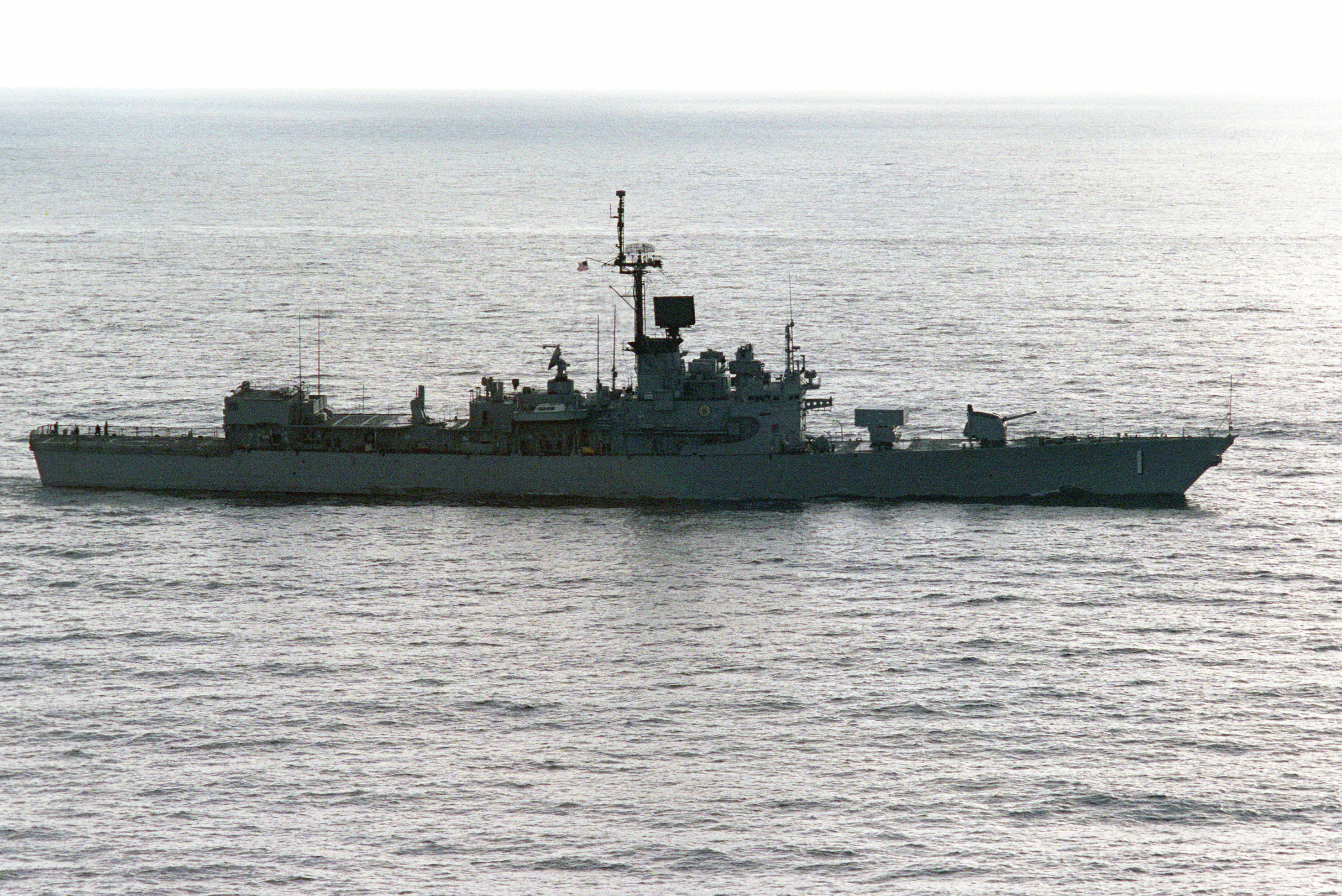 The U.S. Navy guided missile frigate USS Brooke (FFG-1) underway off the coast of San Clemente Island, California (USA), during a missile exercise on 17 January 1988.